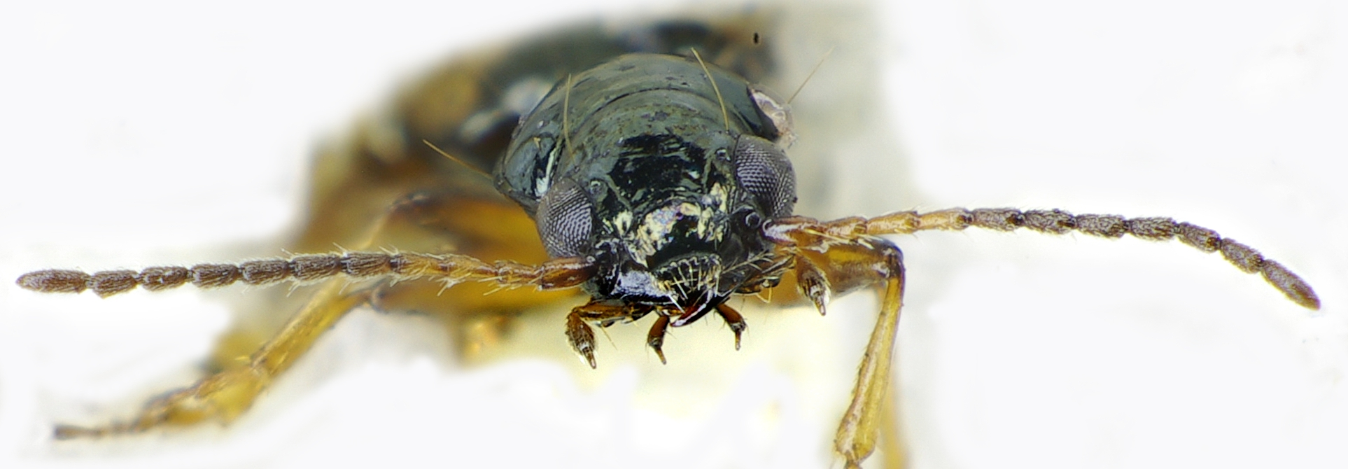 Bembidion quadrimaculatum, front, from Southern Germany, near Tuttlingen, 700m high, at wet piece of rotten wood at 2011-03-09